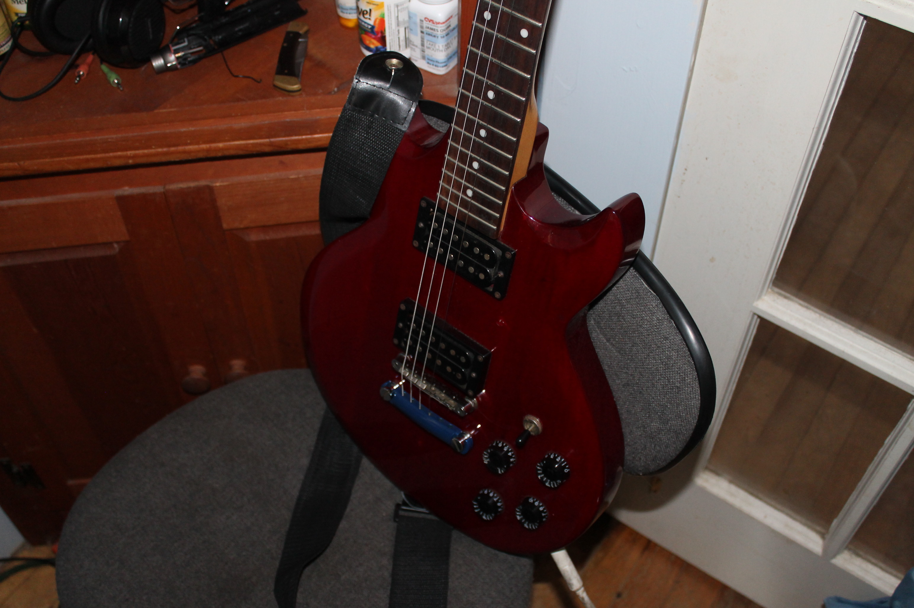 It is a Mid 2000's Ibanez Gio GAX-70 Electric Guitar. Its value in good condition is about $130.00 as of October 2014. It is owned by Wiki user "Naturyl." The instrument pictured is missing two strings.